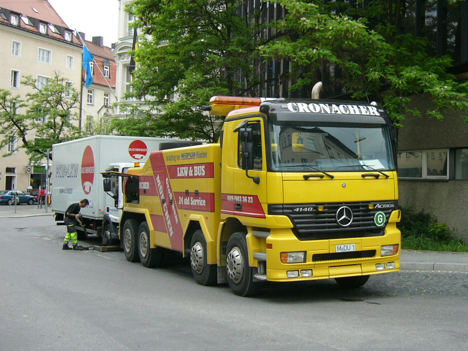 Heavy Tow truck of Martin Cronacher, Ltd., Feldkirchen near München (Germany)